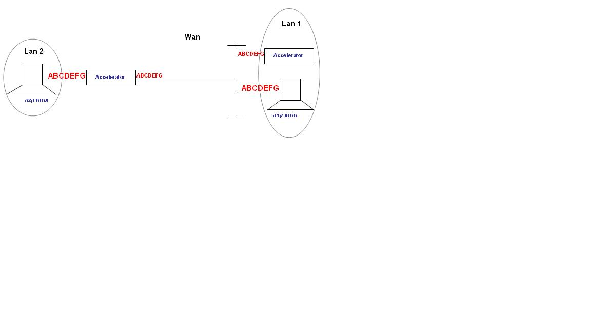 acc on-path